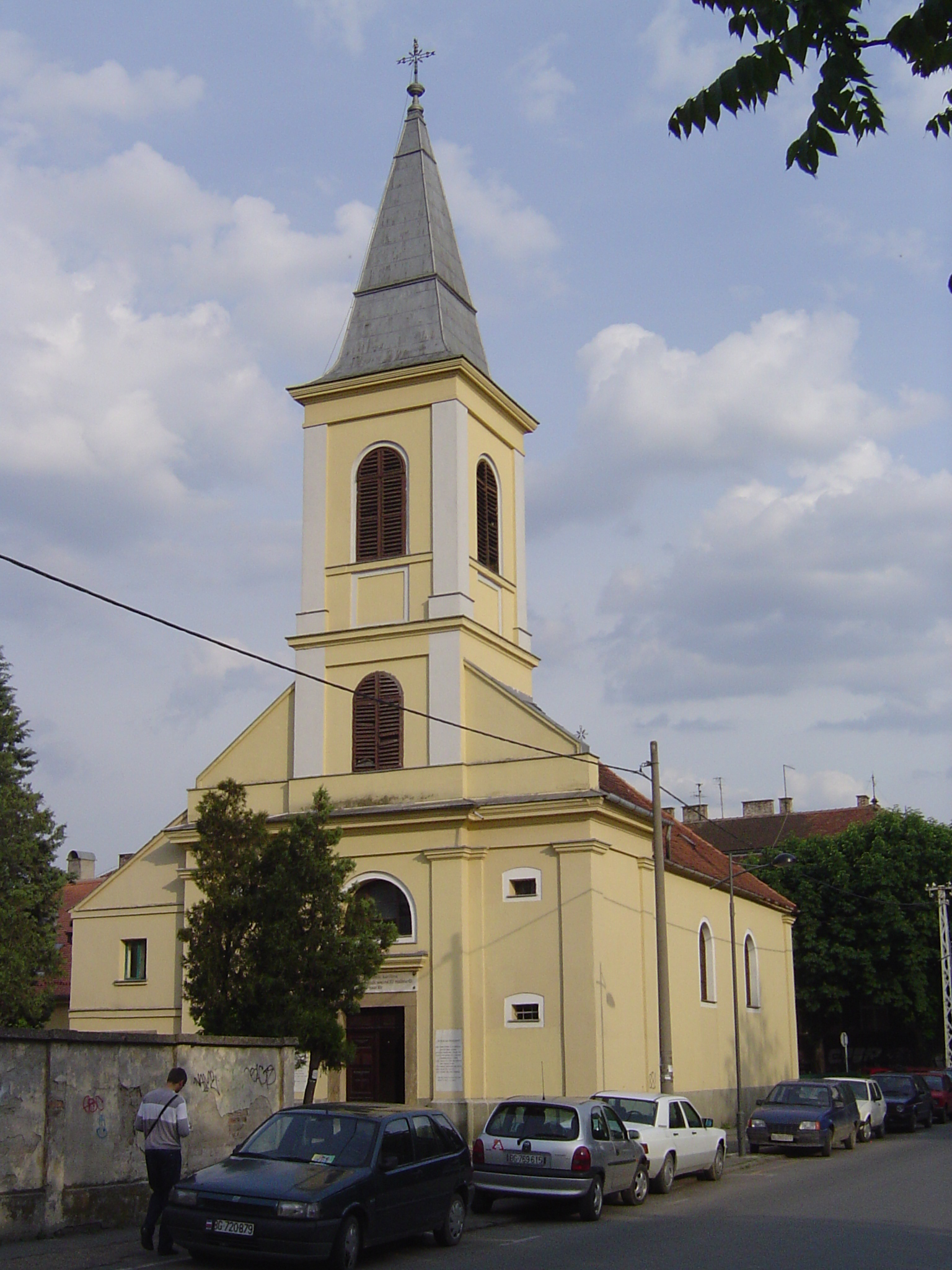 Franciscan church with convent, in Zemun.